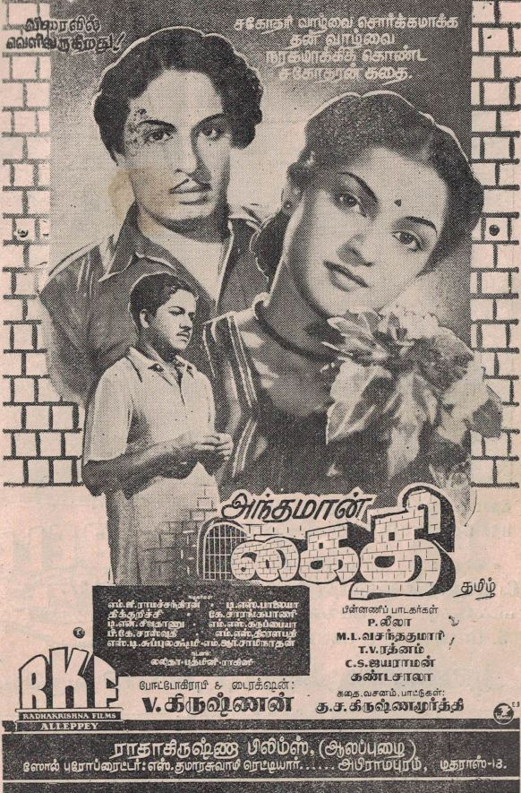 Poster for the 1951 South Indian Tamil film Andaman Kaidhi